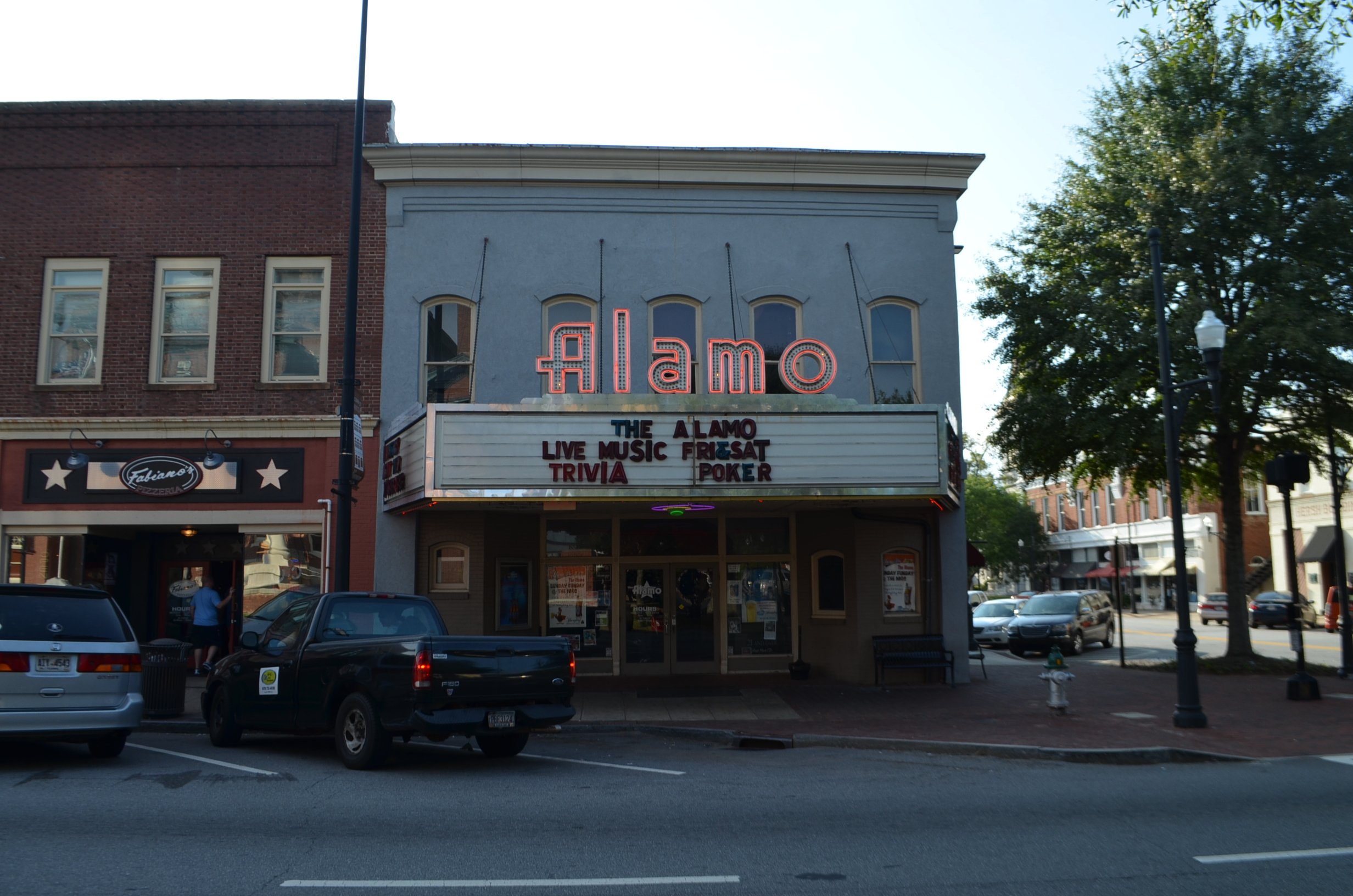 Newnan Commercial Historic District, Roughly bounded by Lee, Perry, Salbide, Lagrange, W. Spring, Brown, Madison, and Jefferson Newnan